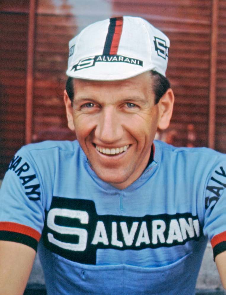 The Italian cyclist Vittorio Adorni posing at the start of a stage of the Giro d'Italia. Italy, May 1966